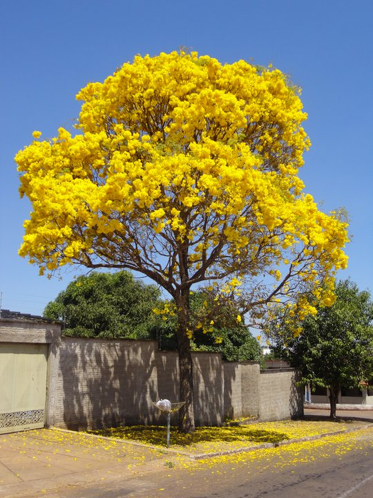 ipe do cerrado